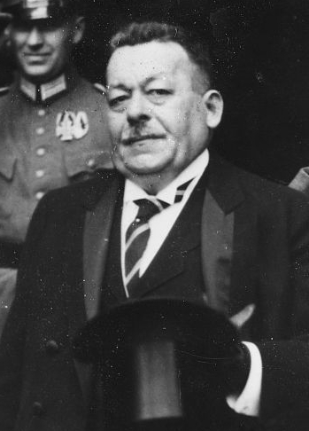 German Chancellor Friedrich Ebert (1871-1925)